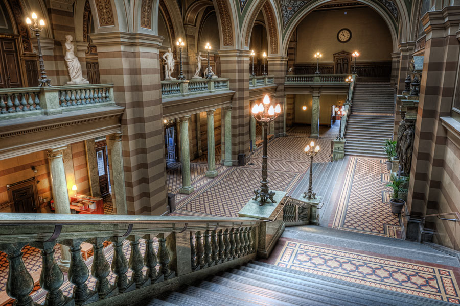 Interior of University of Uppsala.